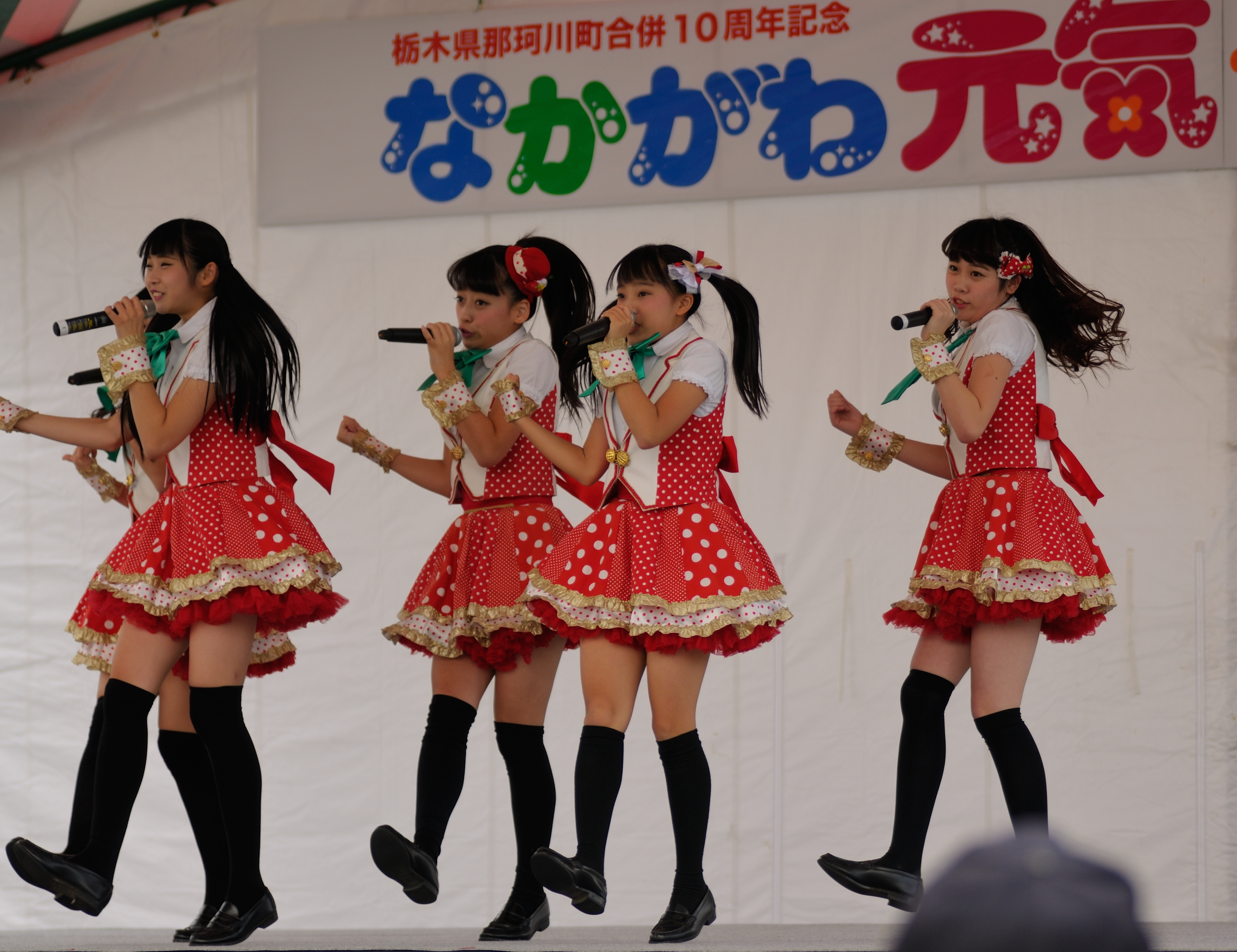 Tochiotome 25